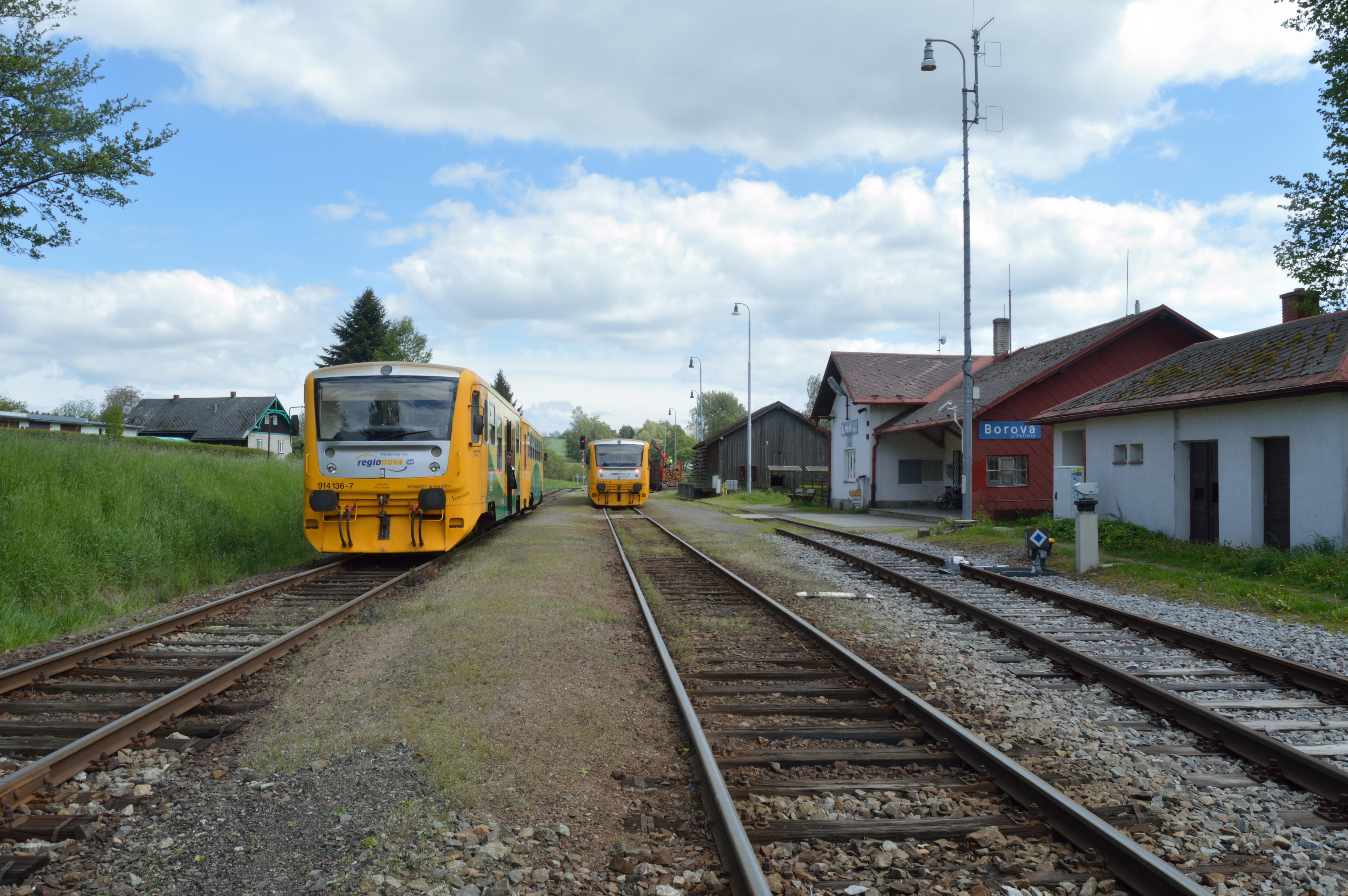 Class 814 sets meeting here at Borová u Poličky on table 261 on 14 May 2014. On the left is 814.136 with train Os15356, 14:02 Borová u Poličky to Žďárec u Skutče. To the right is 814.075 on train Os15337, 14:14 Borová u Poličky to Svitavy.